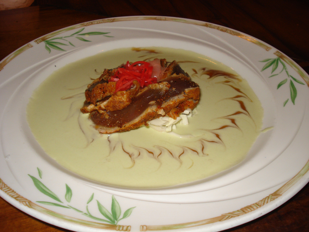 Seared ahi and wasabi beurre blanc sauce from Bali Hai Restaurant, Hanalei Bay Resort, Princeville, Kauai